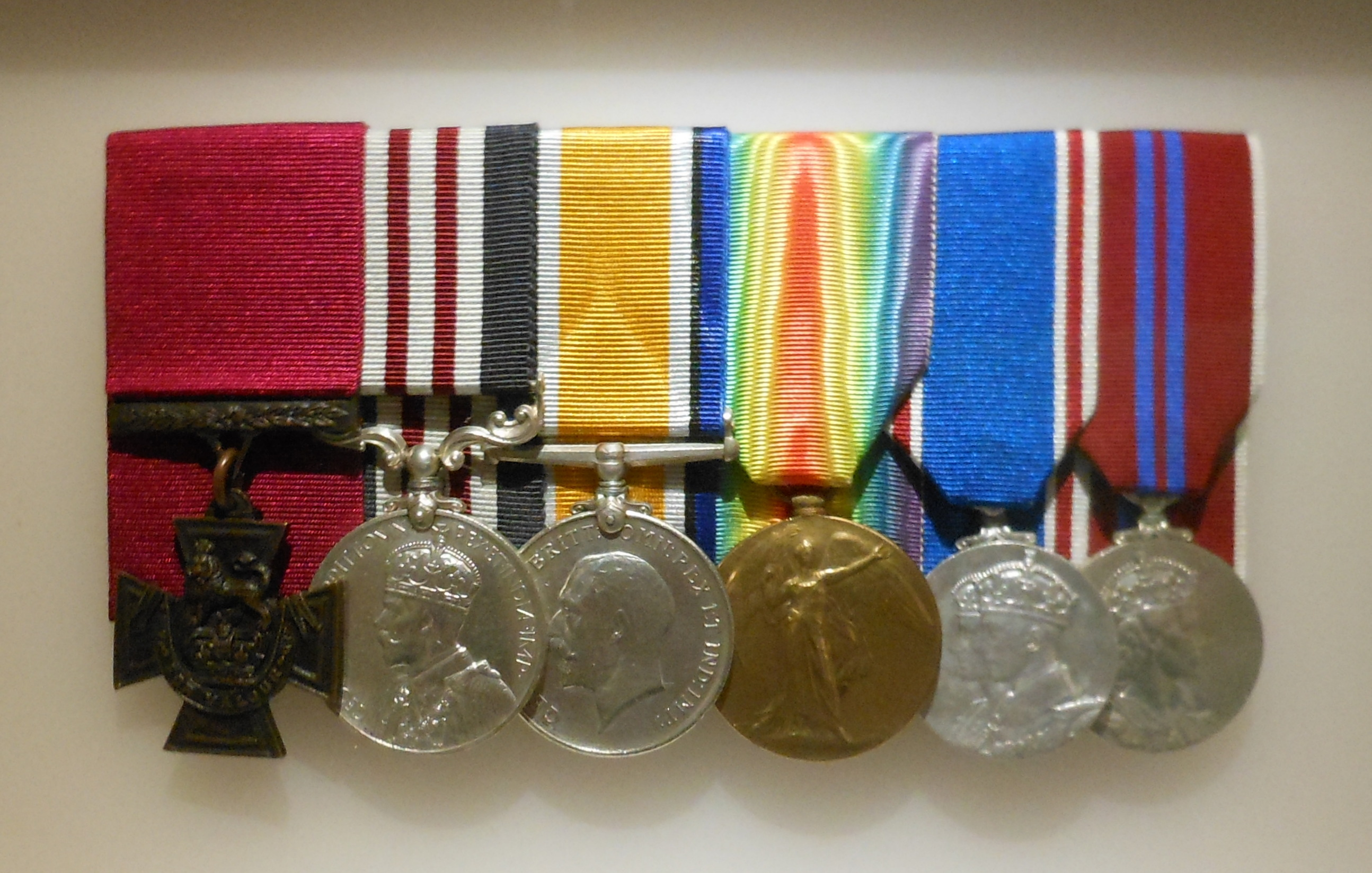 The decorations and medals awarded to Percy Statton VC, MM on display at the Australian War Memorial in Canberra. Statton was an Australian recipient of the Victoria Cross, decorated for his actions in 1918 during the First World War.